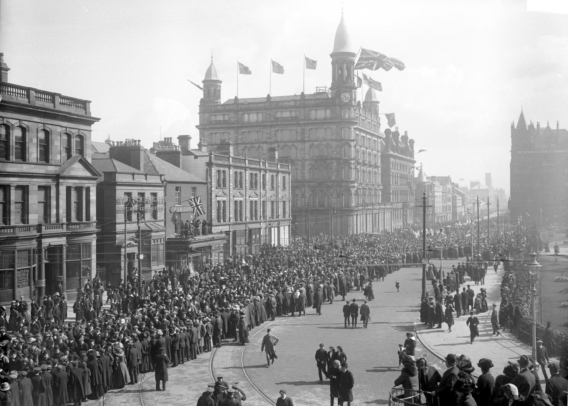 The Unionist clubs marching down Donegall Square North in Belfast on 9 April 1912.